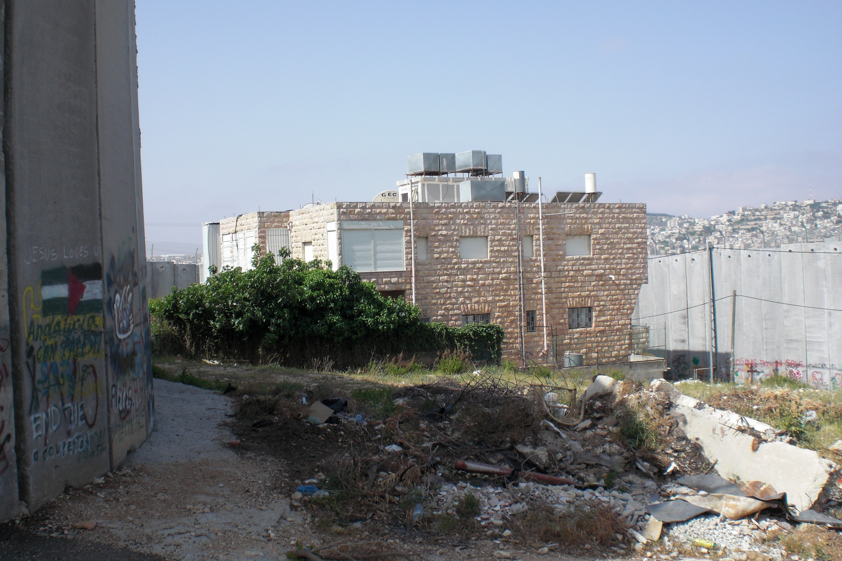 Israeli West Bank barrier surrounding a house in Bethlehem from three sides